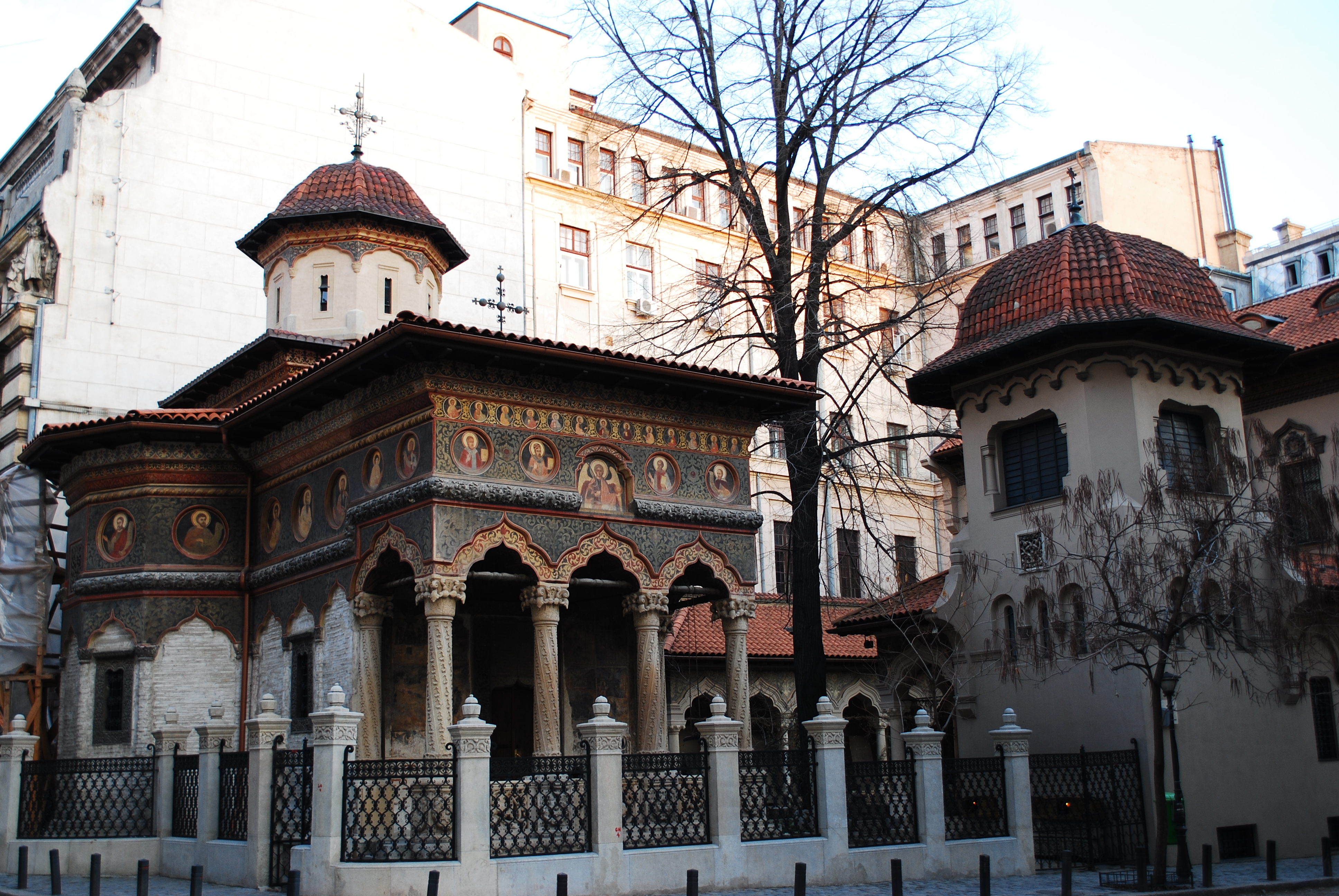 The Stavropoleos Church in Bucharest, Romania